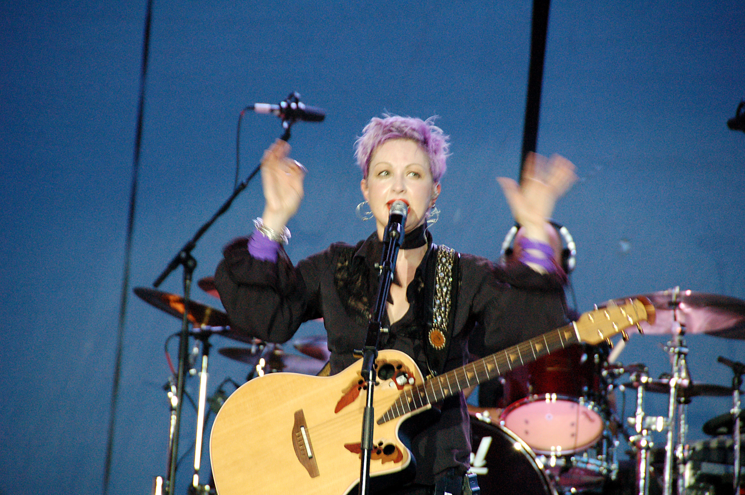 Cyndi Lauper with purple hair during a concert of the True Colors Tour